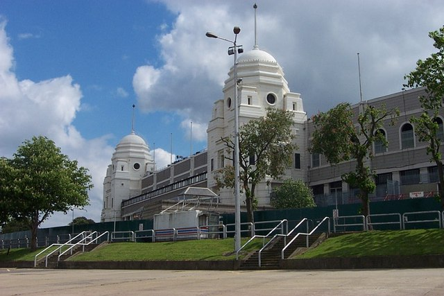 Wembley Stadium Twin Towers, London, England